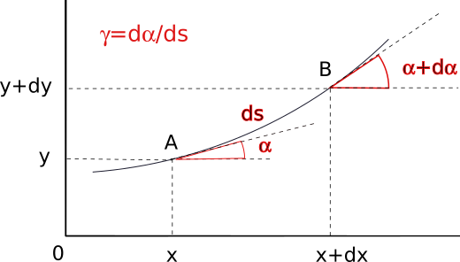 Curvature of an arc